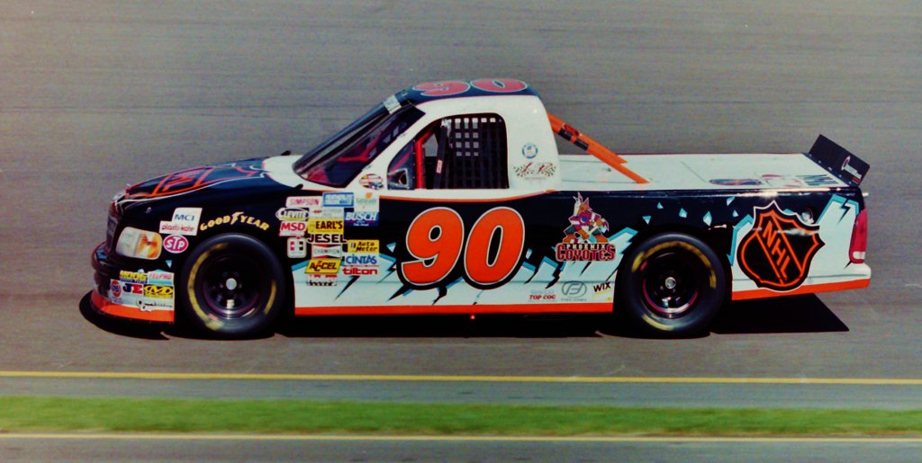 Lance Norick drives the No. 90 L&R Racing Ford at Phoenix International Raceway during the NASCAR Craftsman Truck Series Chevy Desert Star Classic, April 20 1997.